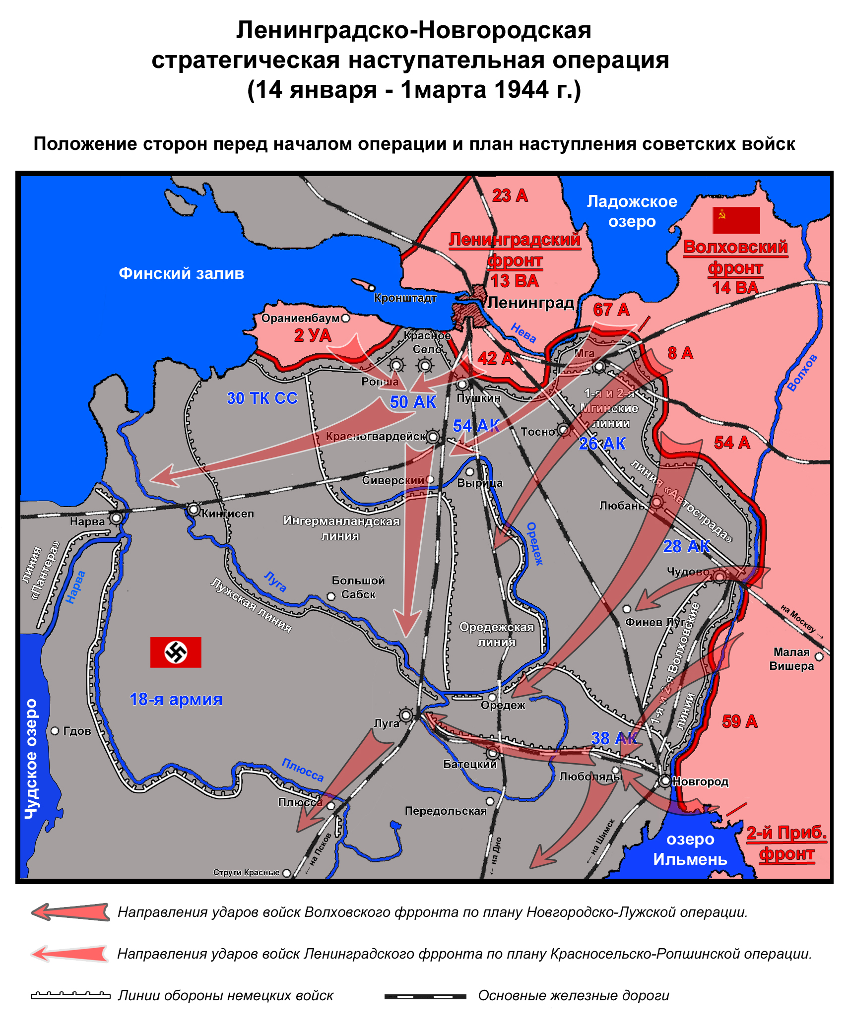 Leningrad–Novgorod Offensive (1944). The position of the parties before the operation.